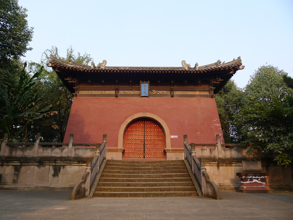 King Zhao's Mausoleum.